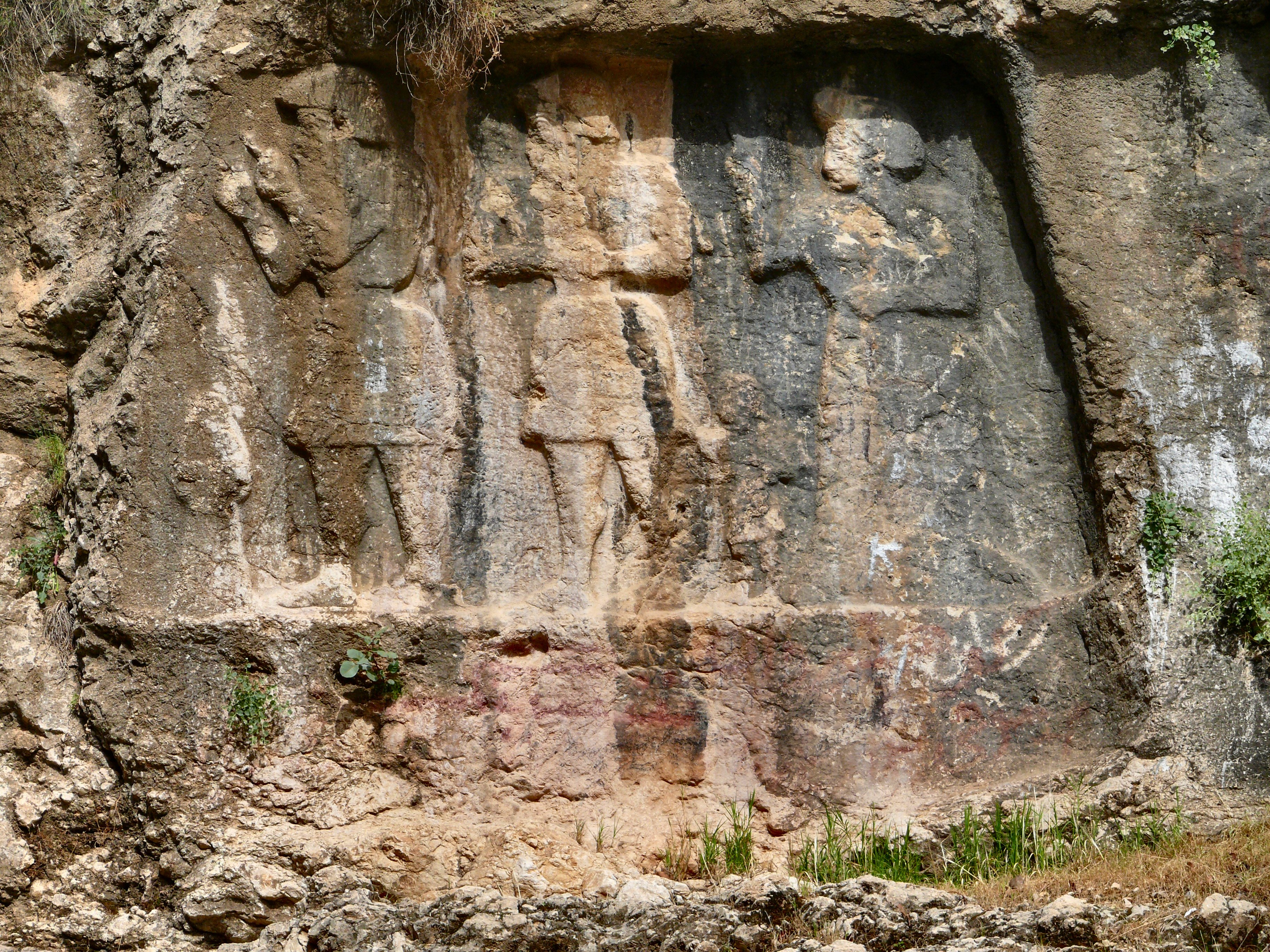 Elamite rock relief said Eshkaft-e Salman I depicting a religious office at Eshkaft-e Salman (Salomon’s cave), also known as the “temple of Tarisha”. It was discovered in the 19th century by the british orientalist traveller and archaeologist Austen Henry Layard. The relief is the first of a serial of 4 carved in and around the spring located in the cave by Elamite King Hanni, 8th-7th centuries BCE. Religious theme is a classic in Elamite rock reliefs, and it is not surprising to find such reliefs around a spring as water was holy. But the first and second reliefs of the site are also remarquable for having a family theme with the very first representations of a queen : from the left to the right, it shows Shutruru (high priest and dignitary) performing the office above an altar, then King Hanni with hands joined, one of his sons, then the queen with a gesture of respect . After Elamite times, no queen will be represented on any rock relief until Sasanian king Bahram II and the second Persian empire. Cuneiform inscriptions written in Neo-Elamite explains the scene. All the characters look in the direction of the spring. City of Izeh, Khuzestan province, Iran, April 2008.